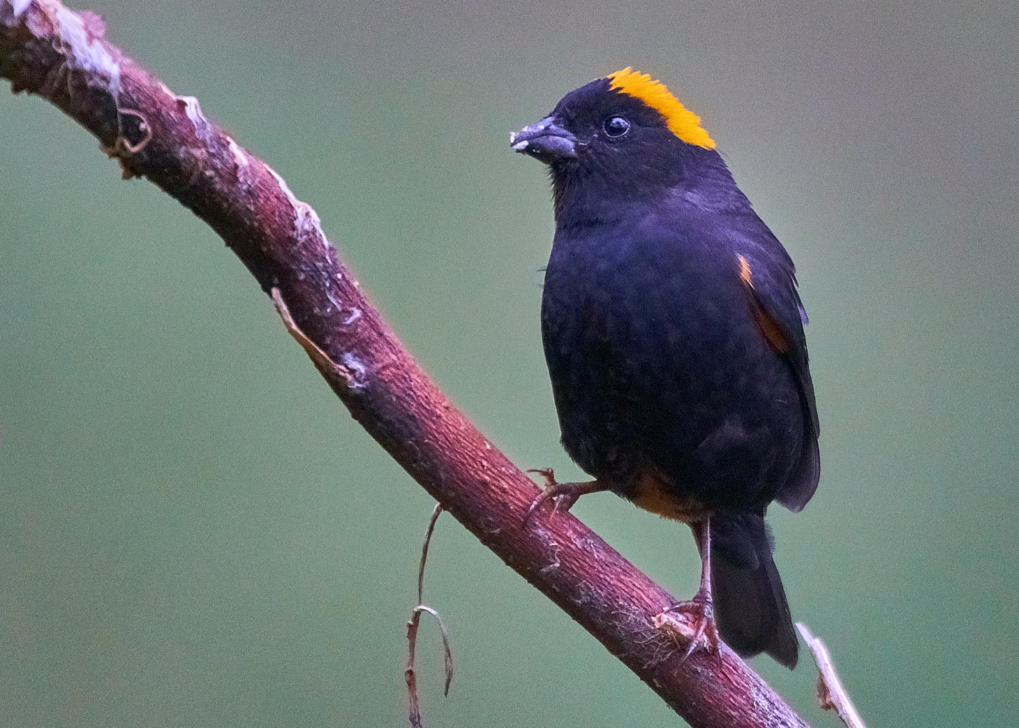 Golden-naped Finch at Lava, WestBengal, India